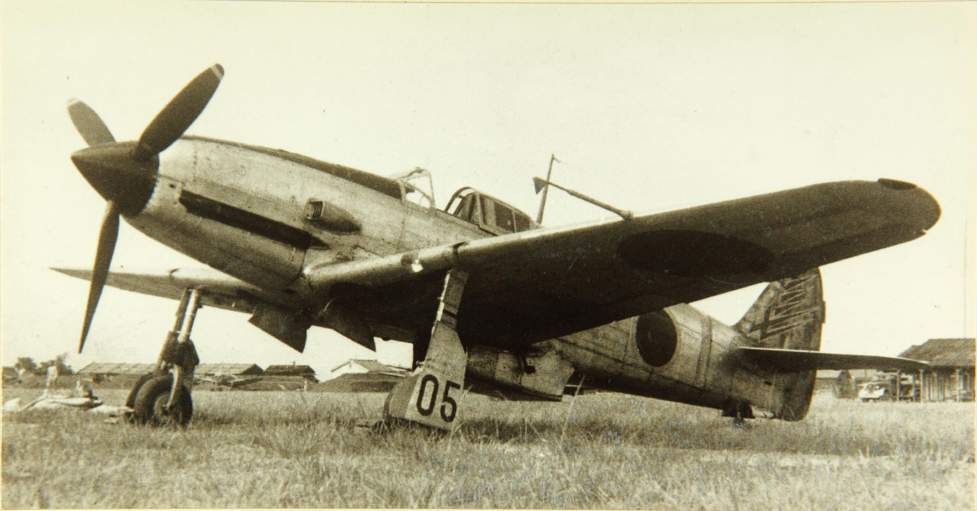 Catalog #: 01_00081938 Title: Kawasaki, Ki-61, Hien (Tony) Corporation Name: Kawasaki Official Nickname: Hien (Tony) Additional Information: Japan Designation: Ki-61 Tags: Kawasaki, Ki-61, Hien (Tony) Repository: San Diego Air and Space Museum Archive